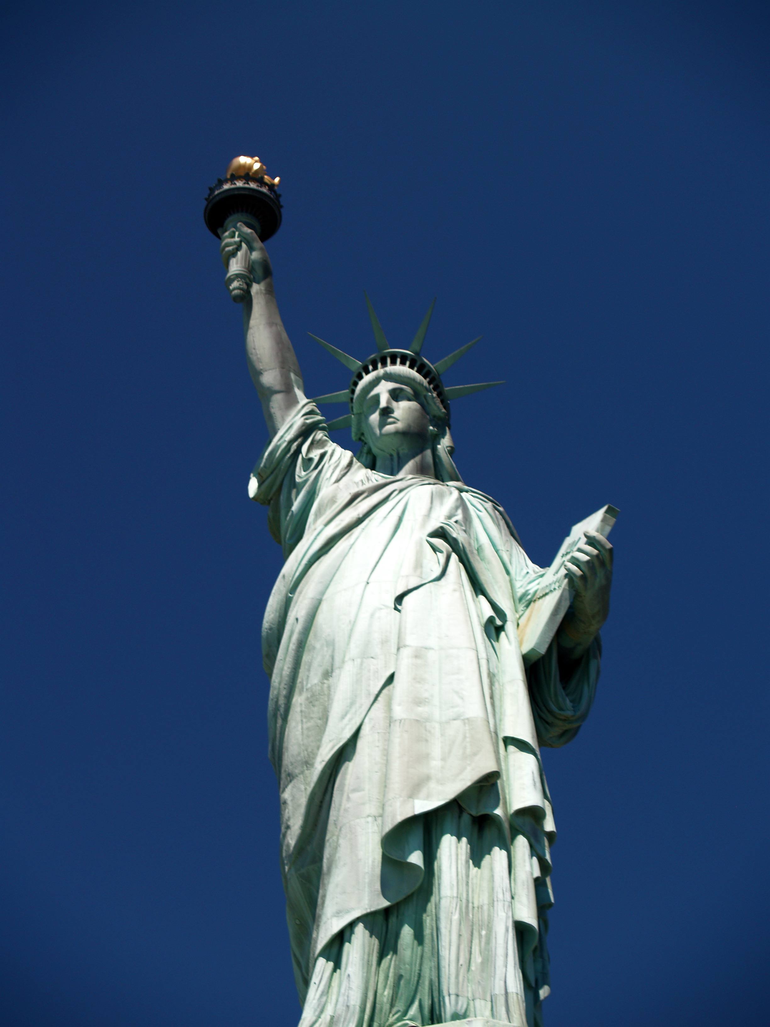 Statue of Liberty in New York seen from its basee×